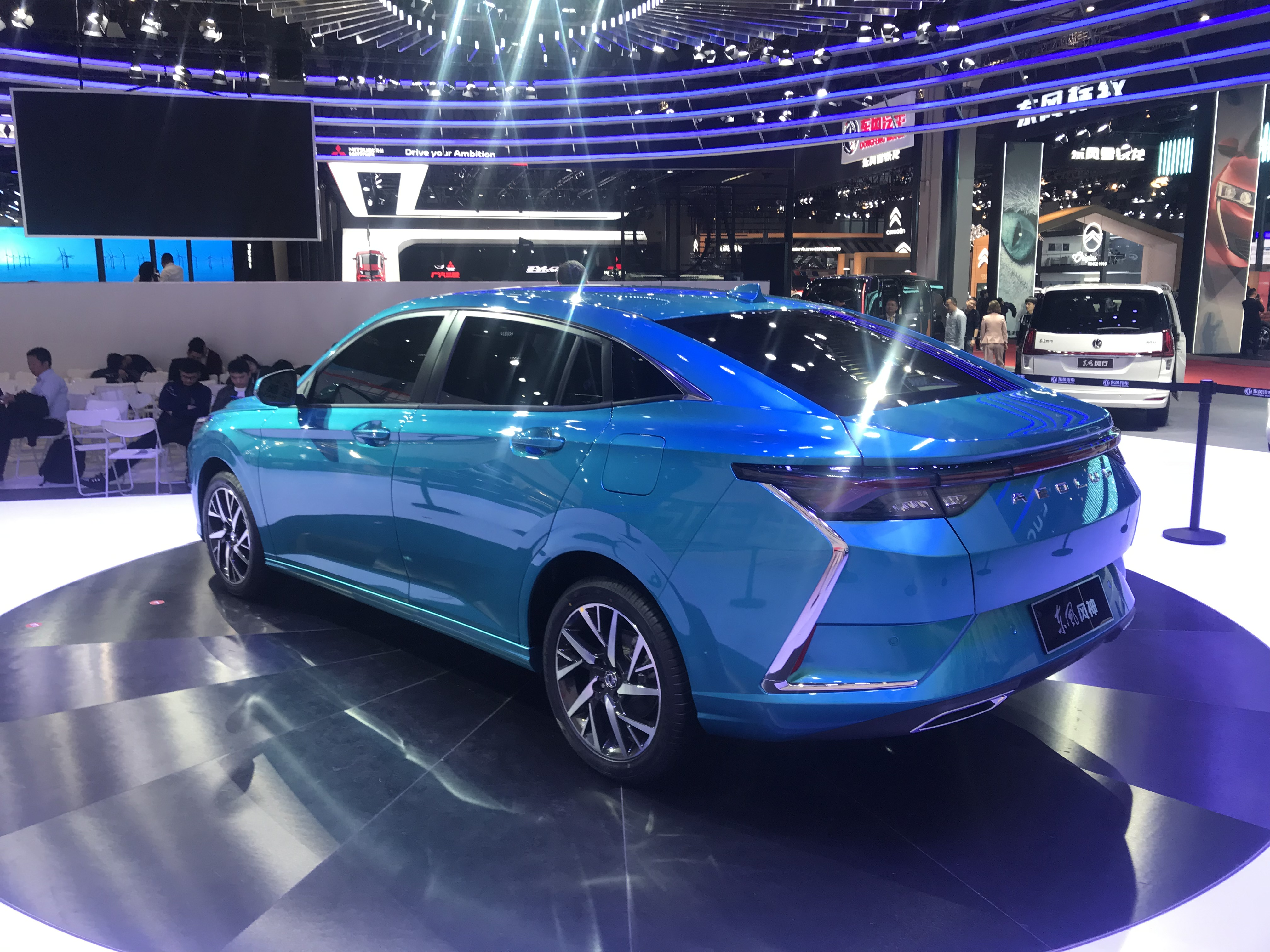 Aeolus (Dongfeng Fengshen) D53